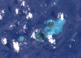 This image (Landsat 7) shows the Pam Islands, Bismarck Archipelago, Admirality Islands Group, Papua New Guinea.